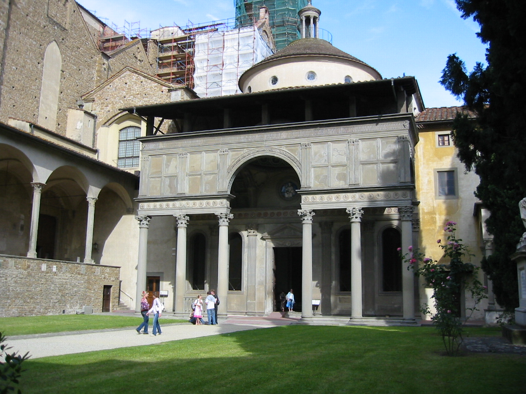 The Pazzi Chapel of Florence